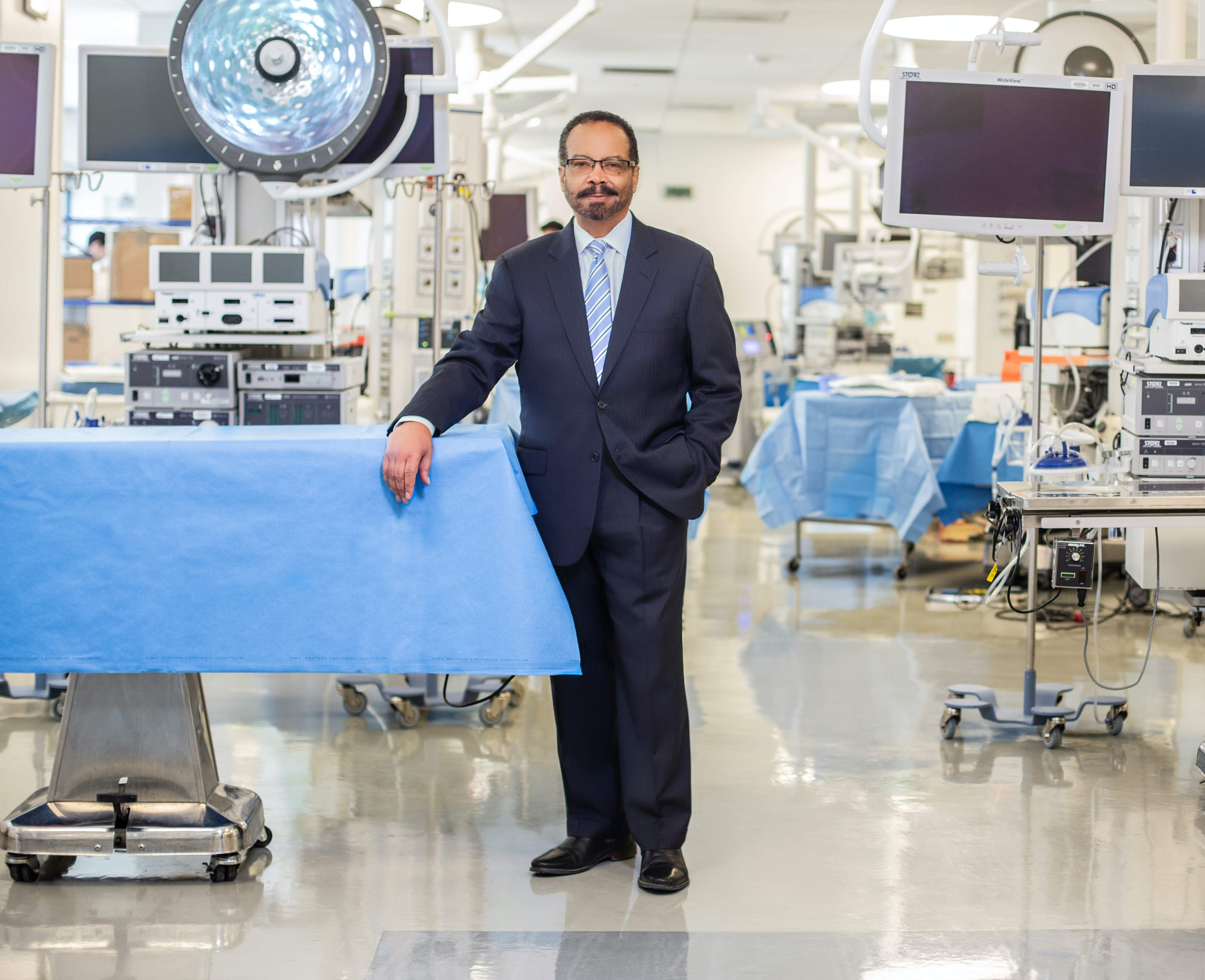 Dr. Roderic I. Pettigrew is currently CEO on EnHealth and Executive Dean of EnMed (Engineering Medicine), an innovative medical school collaboration between the Colleges of Engineering and Medicine at Texas A&M University, and Houston Methodist Hospital.